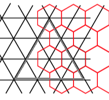 With the dual (triangular and hexagonal) tiling system is possible to transform big triangles (gray) into small hexagons (red)